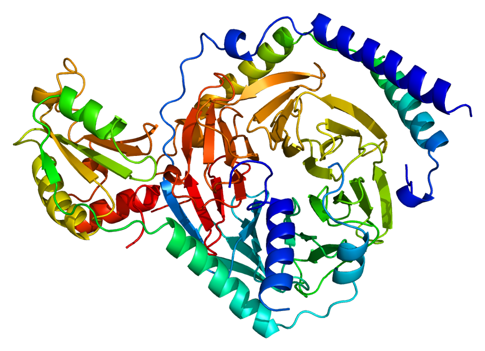 Structure of the GNB1 protein. Based on PyMOL rendering of PDB 1a0r.